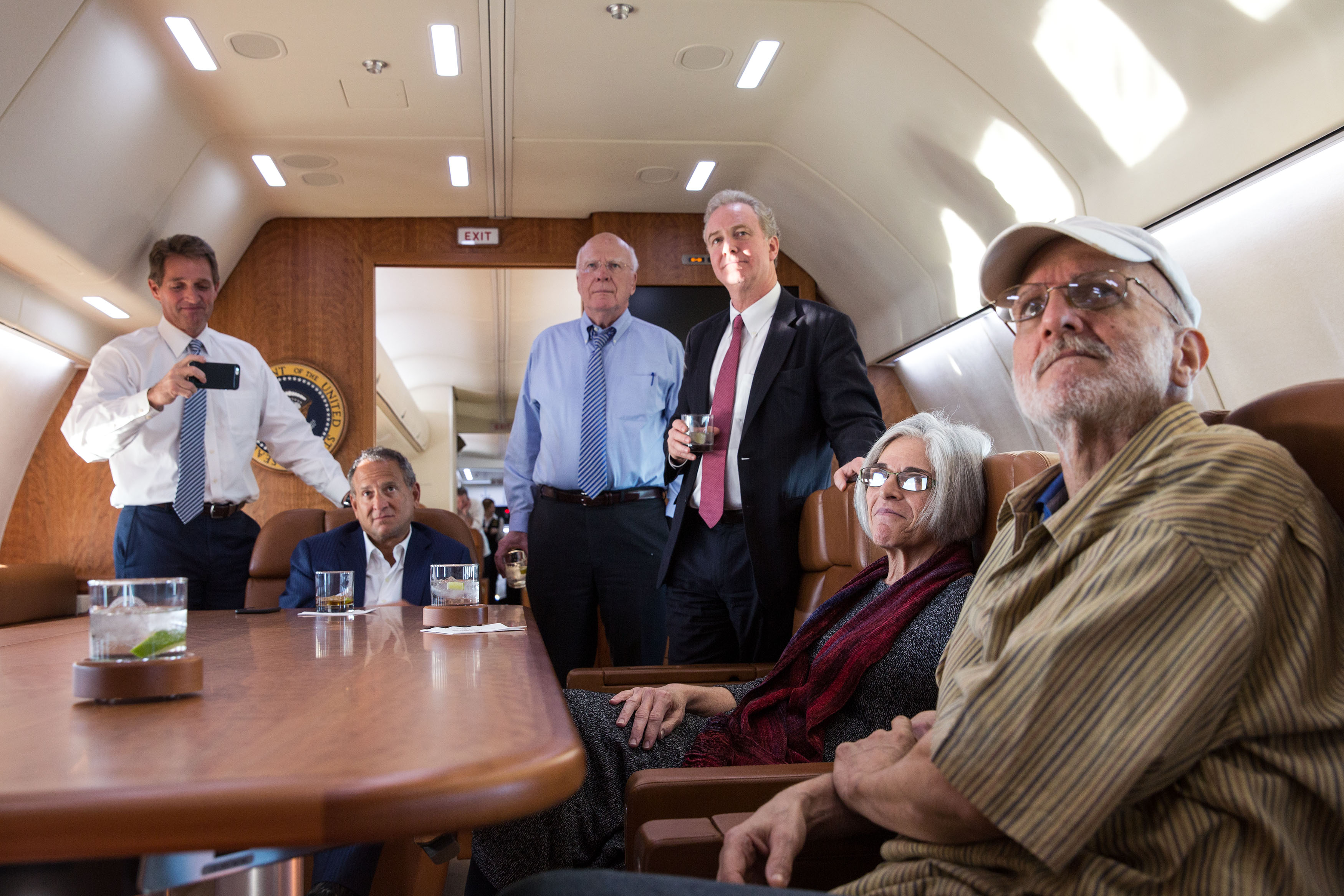 Alan Gross with his wife Judy, attorney Scott Gilbert, Rep. Chris Van Hollen, D-Md., Sen. Patrick Leahy, D-Vt., and Sen. Jeff Flake, R-Ariz. watch television onboard a government plane headed back to the US as the news breaks of his release, Dec. 17, 2014. (Official White House Photo by Lawrence Jackson) This official White House photograph is in the public domain from a copyright perspective, so while restrictions such as personality or privacy rights may apply, in general, manipulations are allowed.